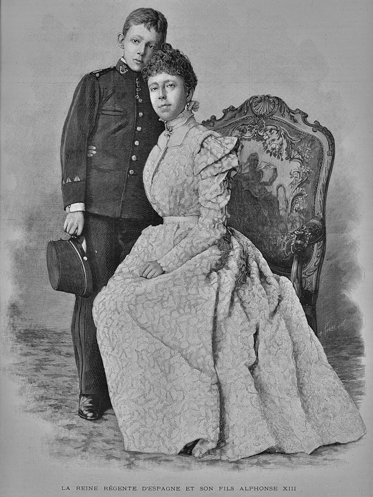 King of Spain Alfonso XIII and his mother, the Queen-Regent Maria-Christina of Habsburg-Lothringen-Teschen, during the spanish-american war of 1898, photo by Valentin Gomez, published in L'"ILLUSTRATION", french news magazine.